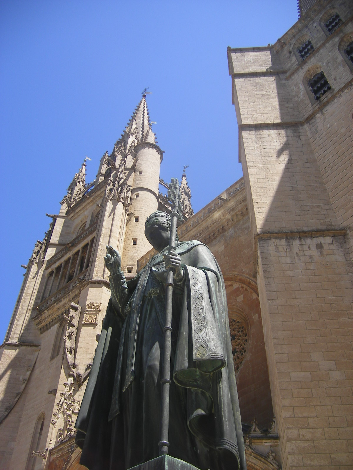 Mende - the cathedral and statue of Urbain V.